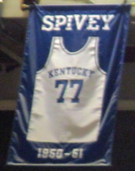 A jersey honoring Bill Spivey hanging in Rupp Arena in Lexington, Kentucky